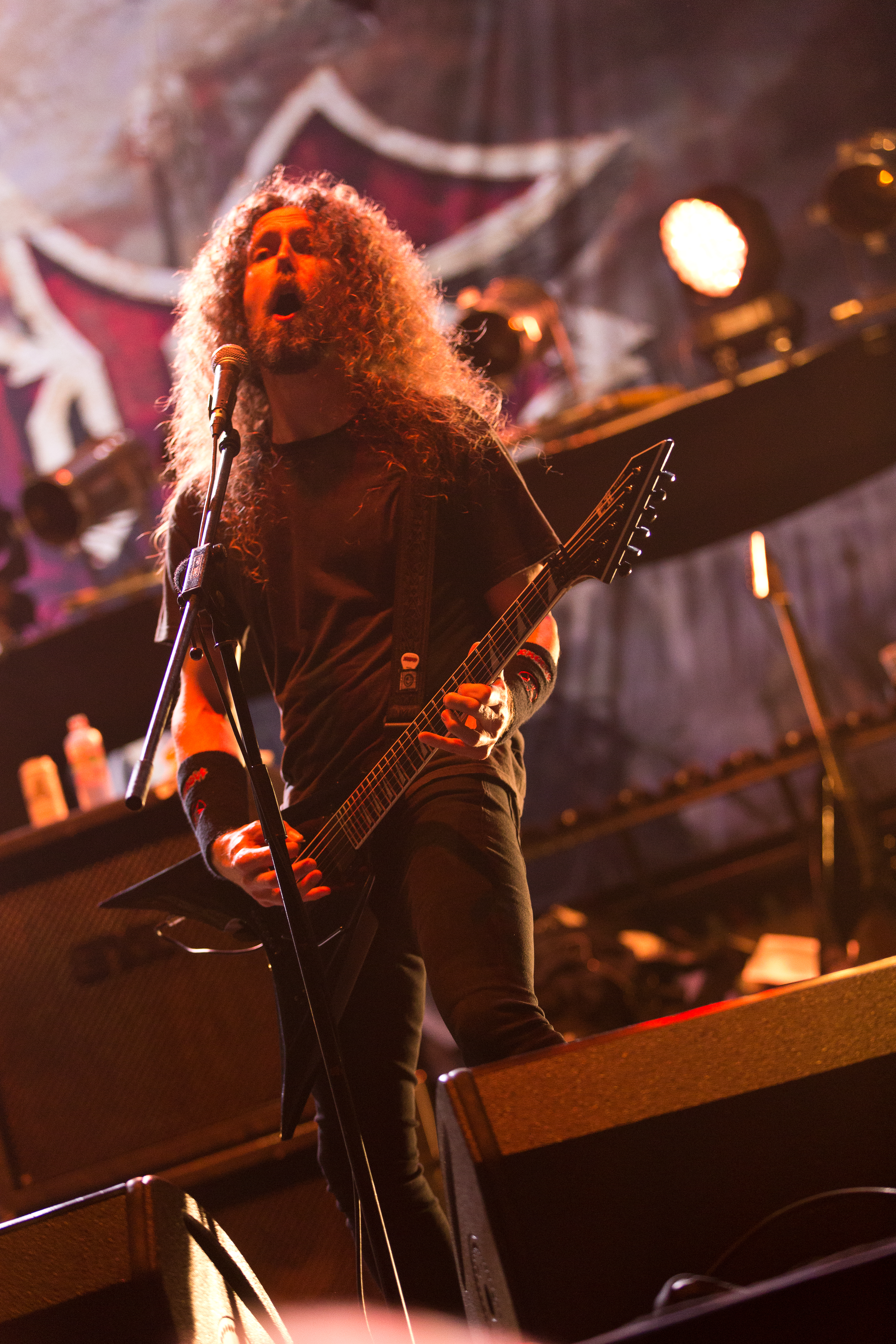 The American thrash metal band Exodus at the Party.San Metal Open Air 2016 in Obermehler-Schlotheim/Germany.